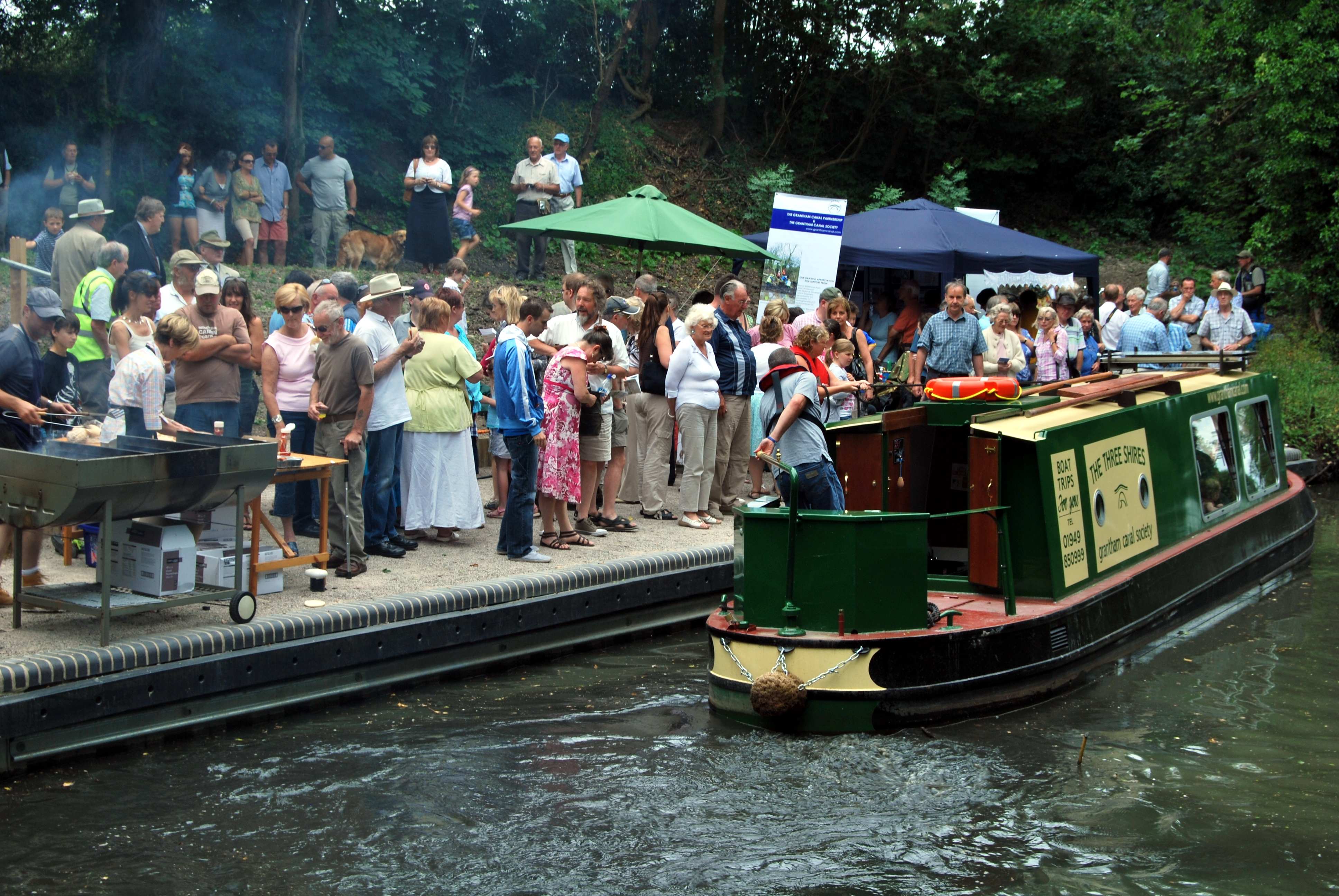 Harlaxton Wharf on the day it was officially reopened after restoration. The "Three Shires" narrow boat mooring.